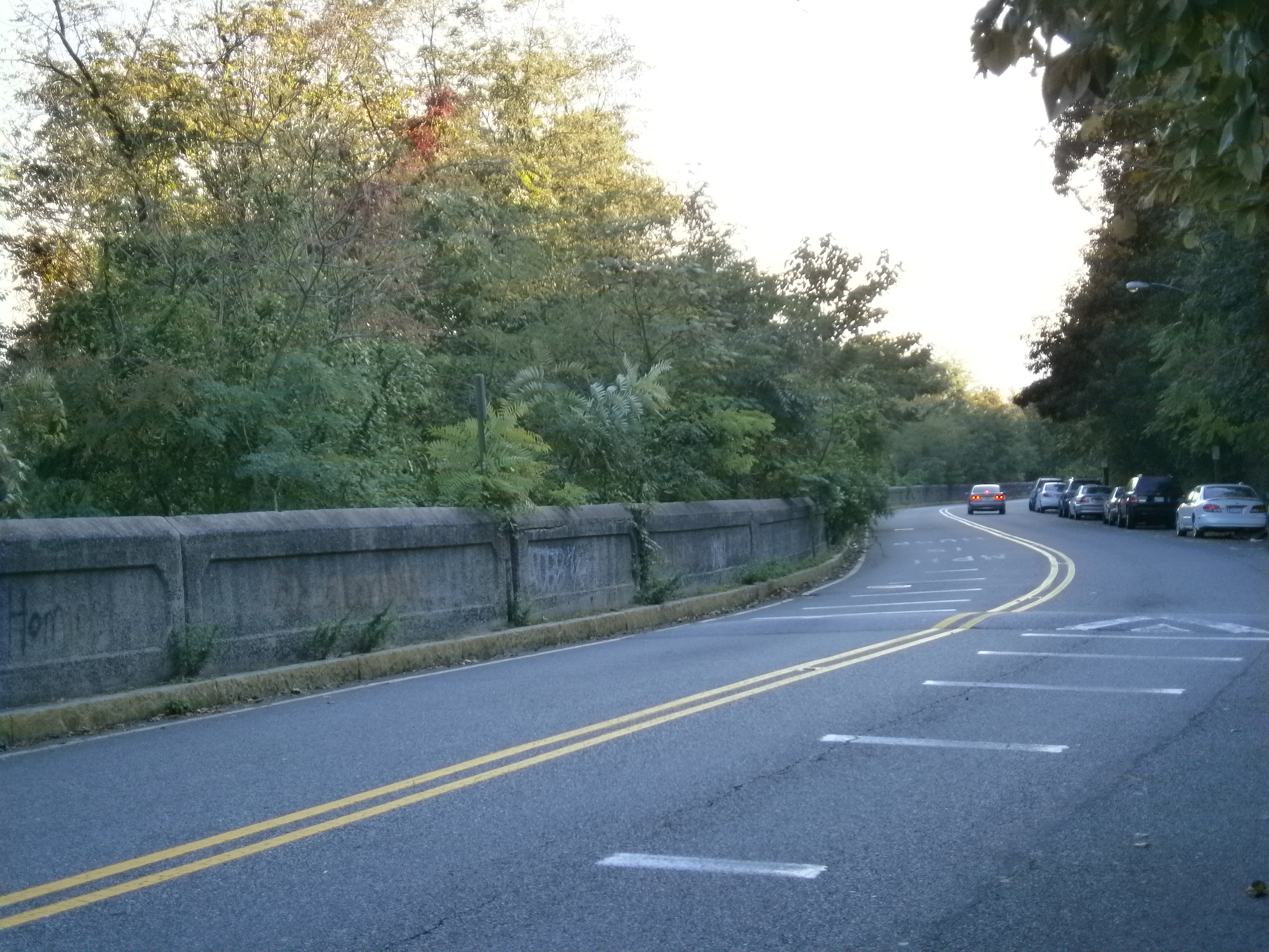 Pershing Road winds it way along Hudson Palisades in Weehawken